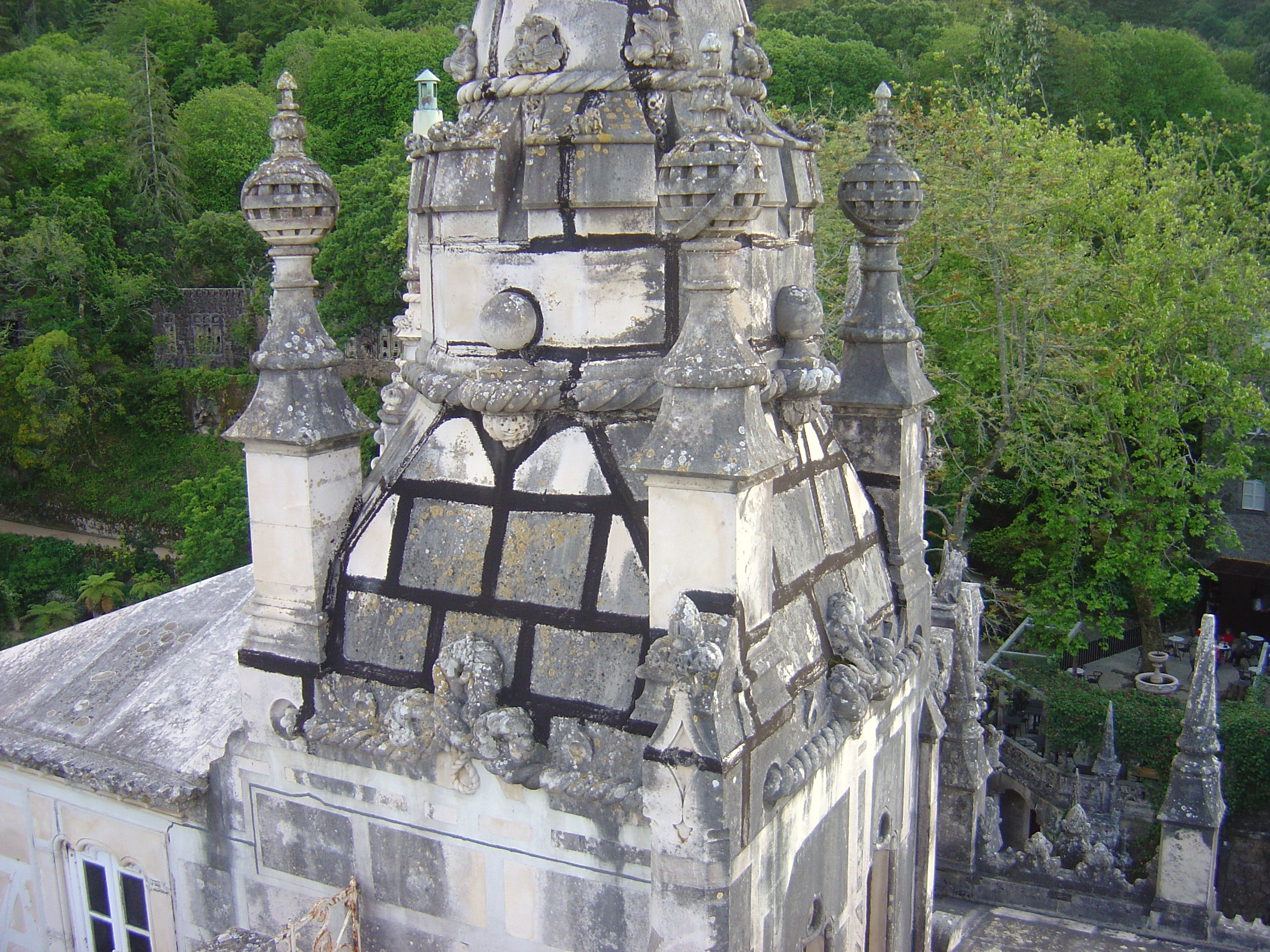 Quinta da Regaleira, Sintra, Portugal